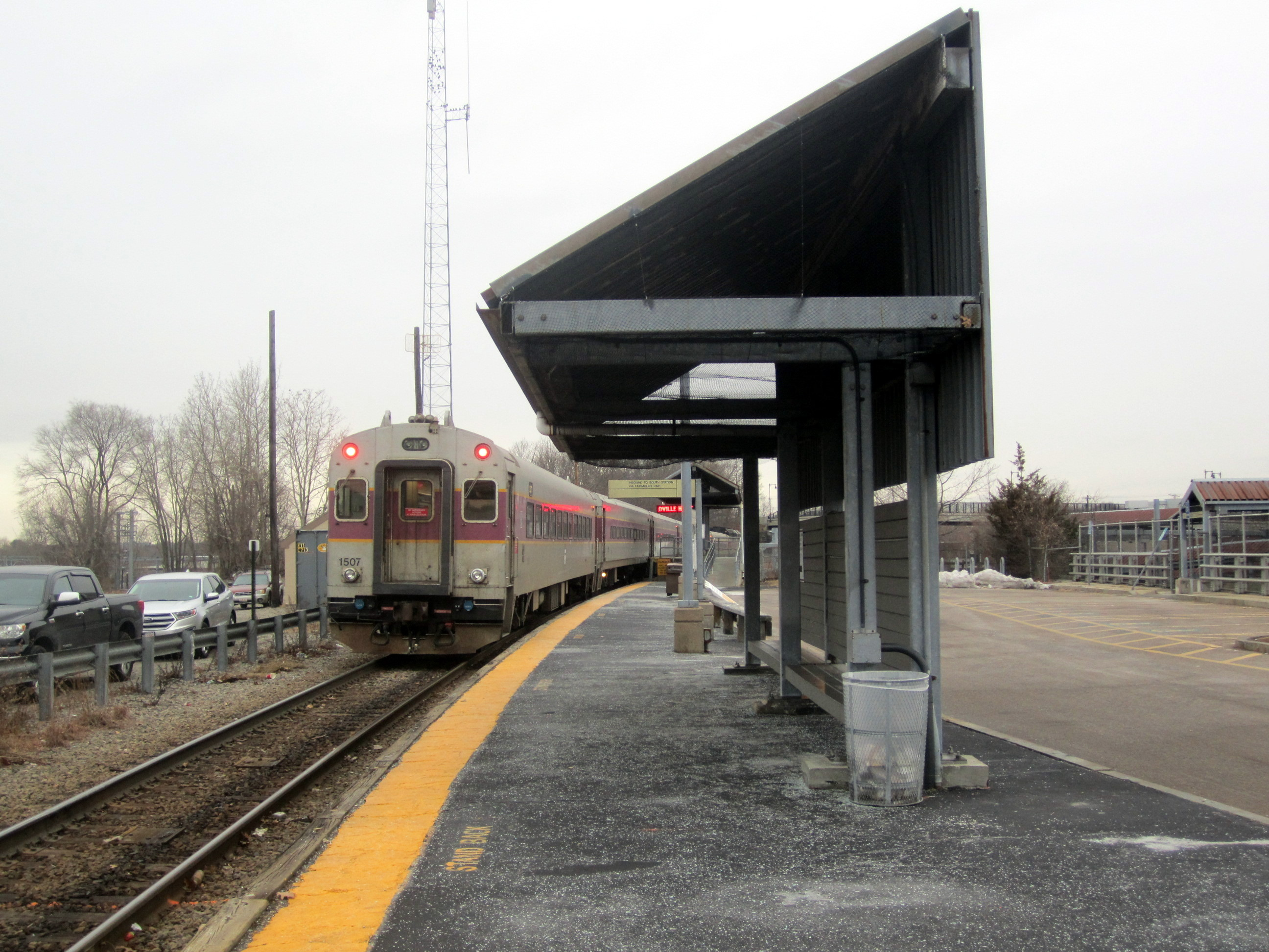 Fairmount Line train at Readville station in December 2017